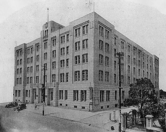 Totaku(Oriental Development Company) Building (Tokyo)